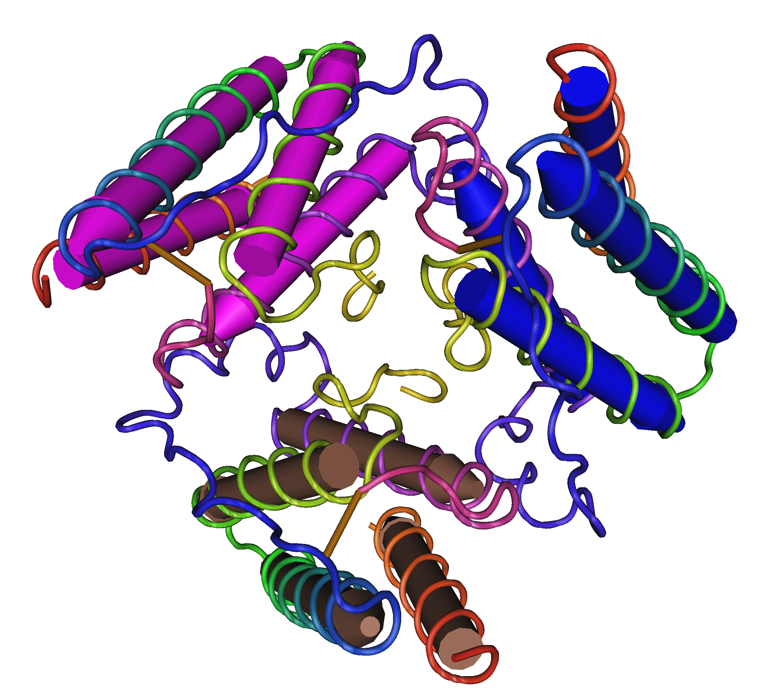 MMDB ID 55396 PDB ID 1AX8 Human Obesity Protein Leptin